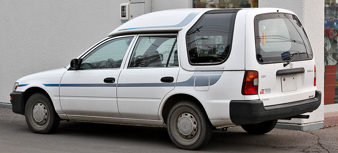 Toyota Corolla Hi-Roof Van ( E100 series )